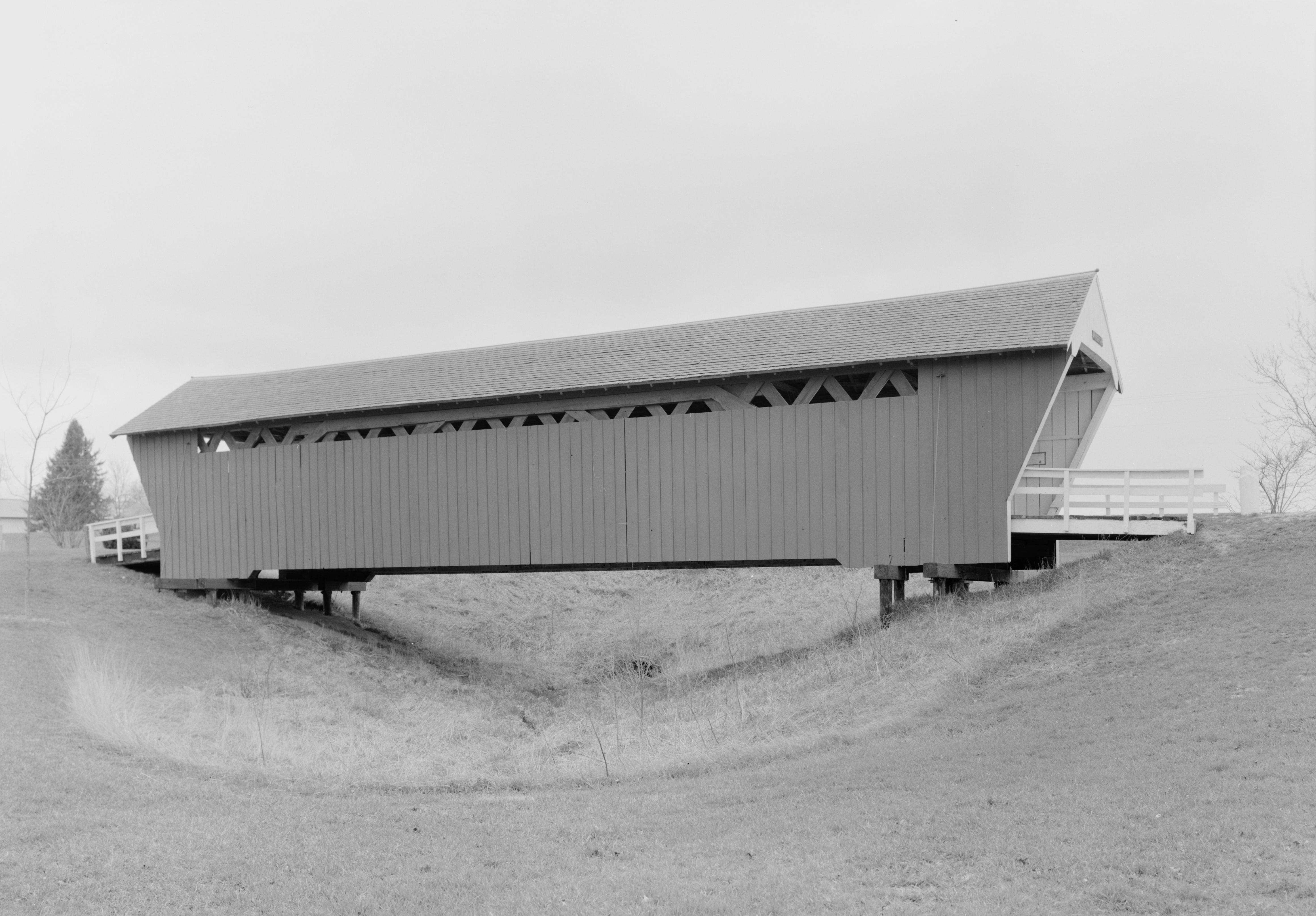 Northwestern side of the Imes Covered Bridge, which spans a small ravine near Iowa Highway 251 in the vicinity of St. Charles, Iowa, United States. Built in 1870, this covered bridge (the oldest remaining in the county) is listed on the National Register of Historic Places.